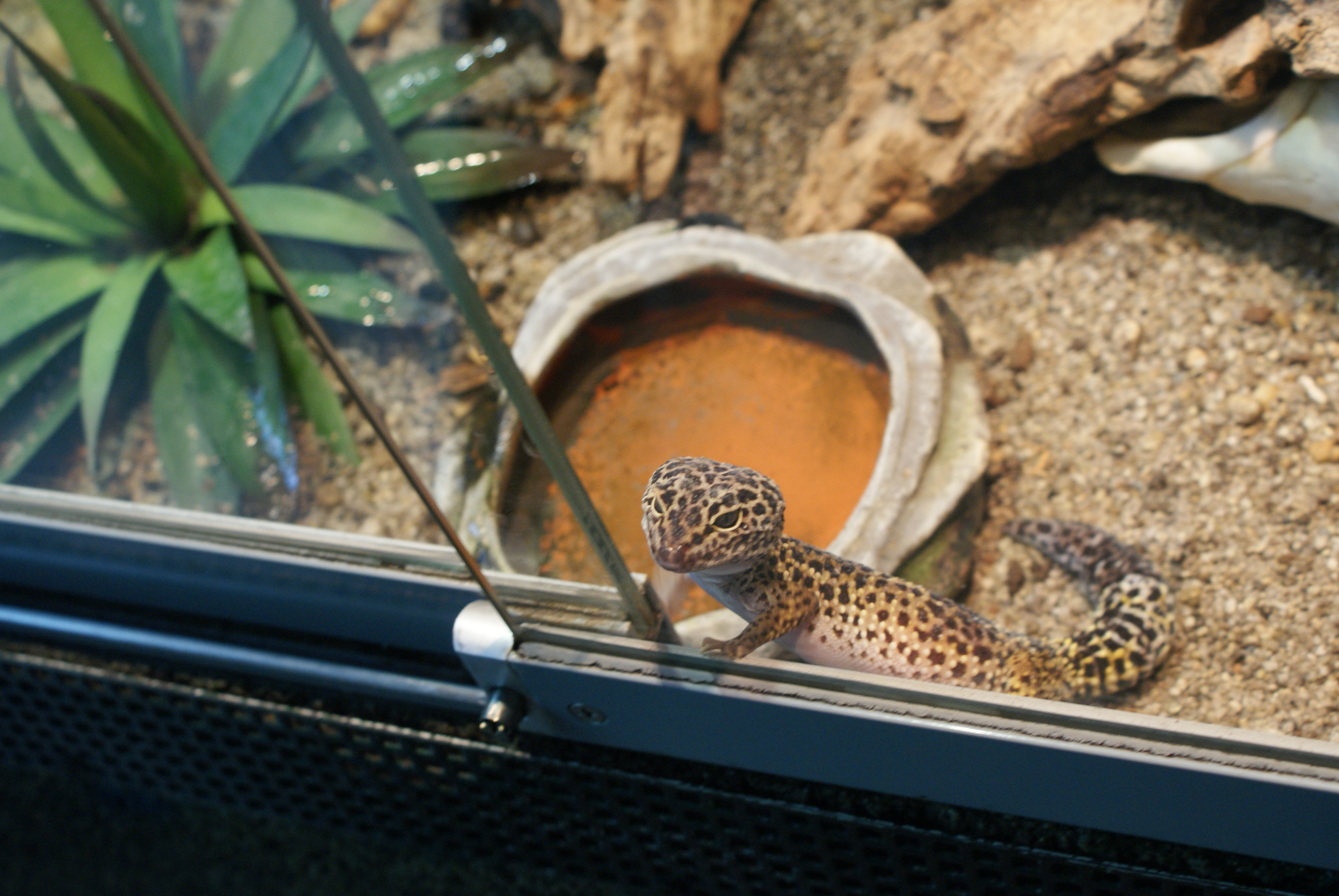 Eublepharis macularius in Tropicarium-Oceanarium Budapest